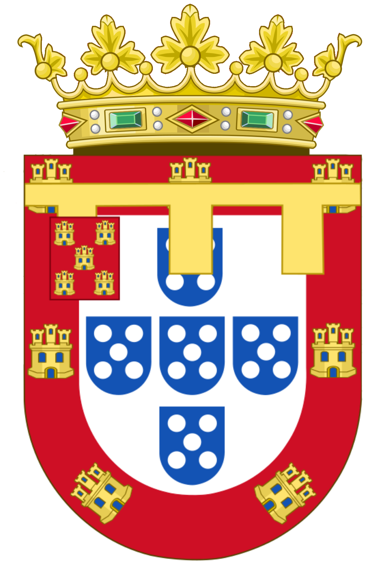 Coat of arms of the Duques of Porto. Based off of and using